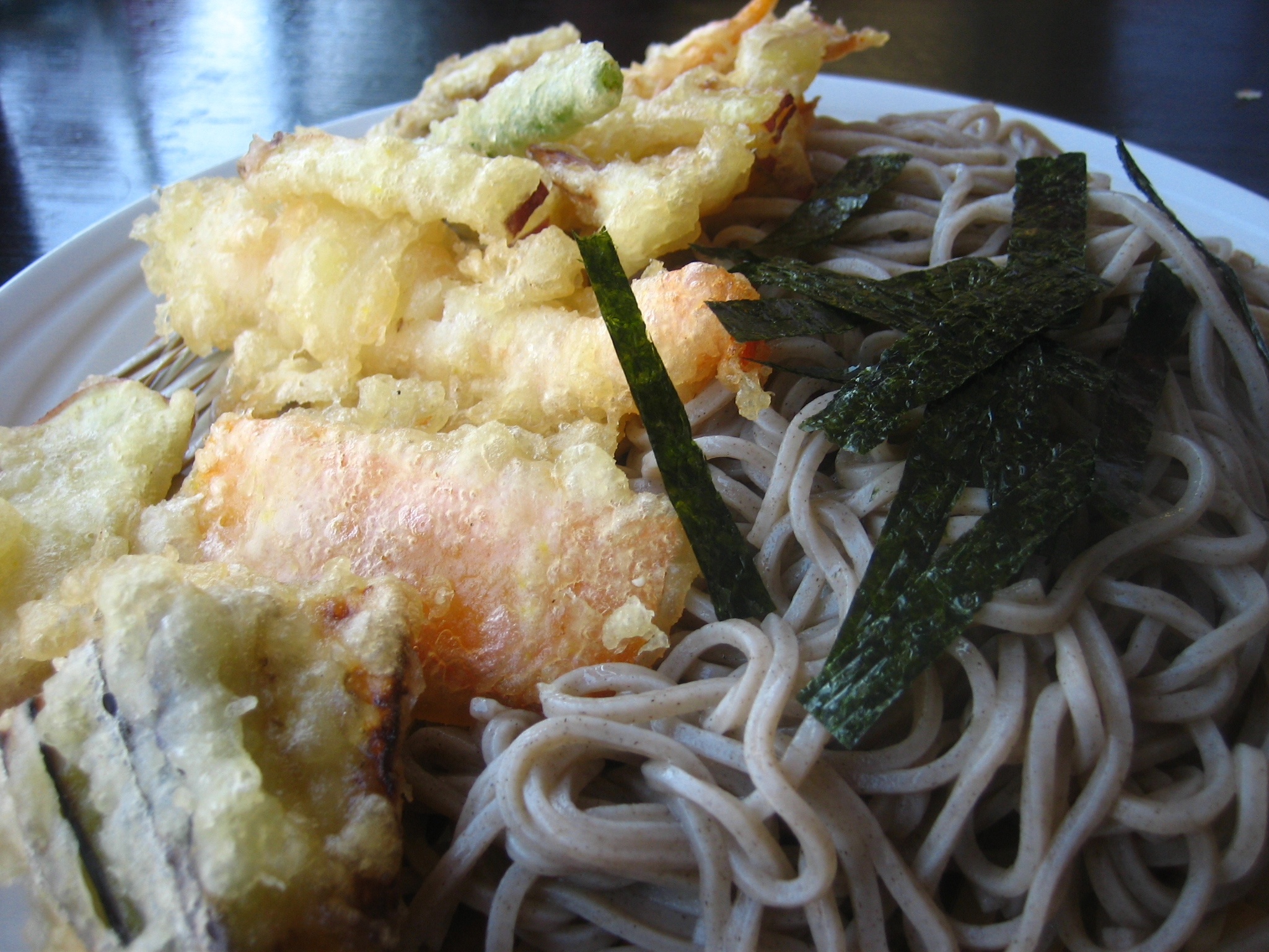 E-Kagen, Brighton